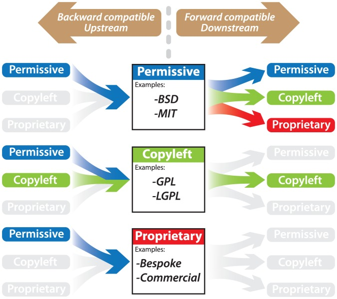 In general, permissively licensed code is forward compatible with any other license type. However, only permissive licenses, such as the BSD and MIT, can feed into other permissive licenses. Restrictive licenses like the GPL are backward compatible with themselves and permissive licenses, but must adopt the restrictive license from then on. Proprietary licenses can incorporate upstream permissively licensed code, but by definition are incompatible with any other downstream license. Grey represents actions that are not permitted without negotiating a separate license agreement with the rights owner.